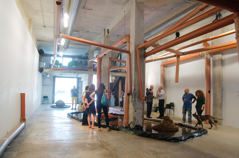 r.f c